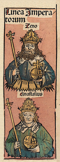 Woodcut from the Nuremberg Chronicle